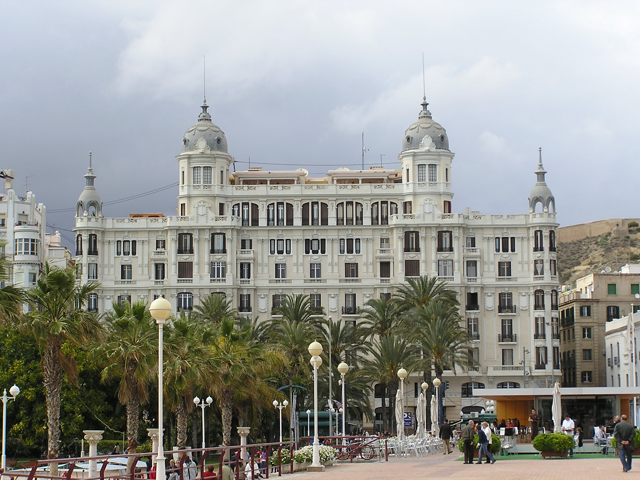 Alicante, Casa Carbonell (just before a rain, on April 10, 2009)